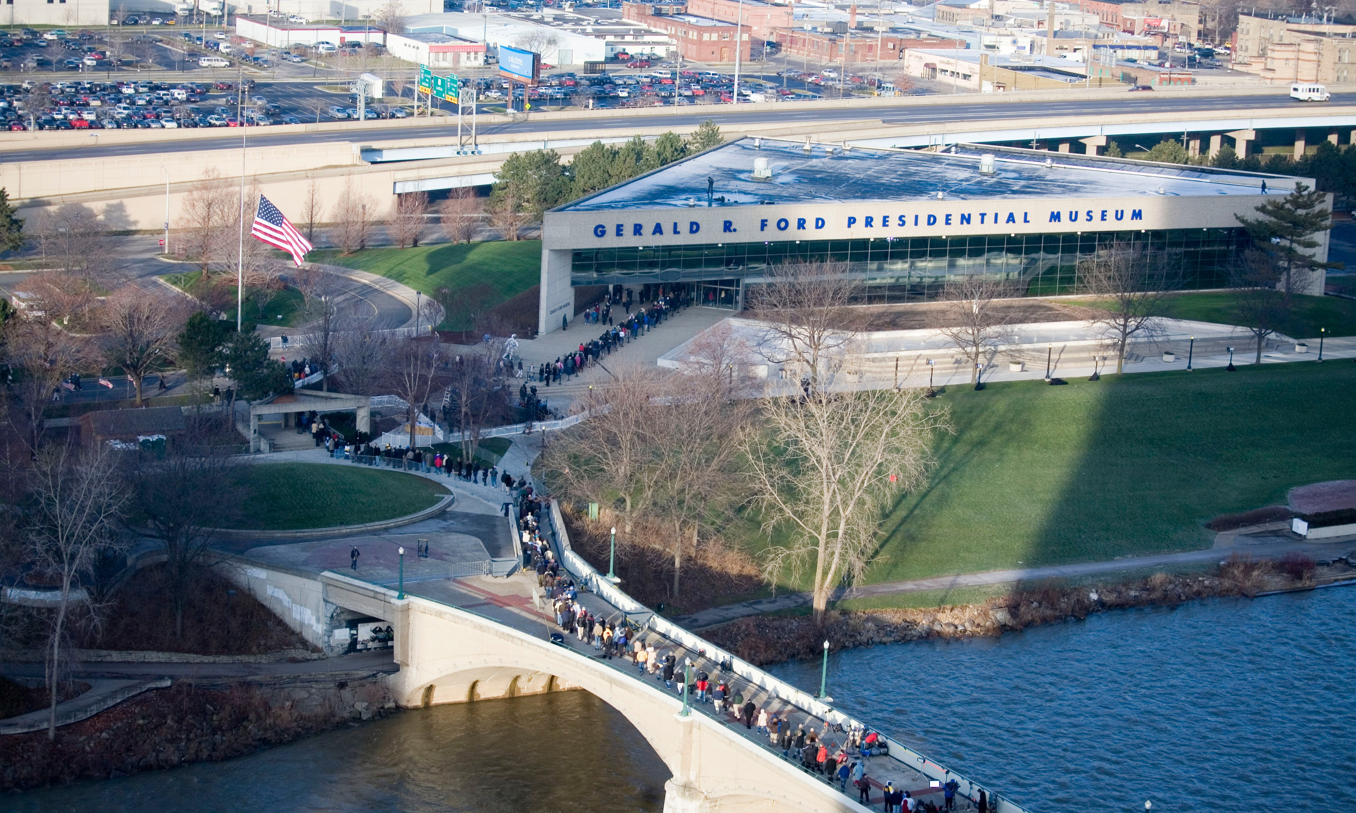 Above the Gerald R. Ford Presidential Museum